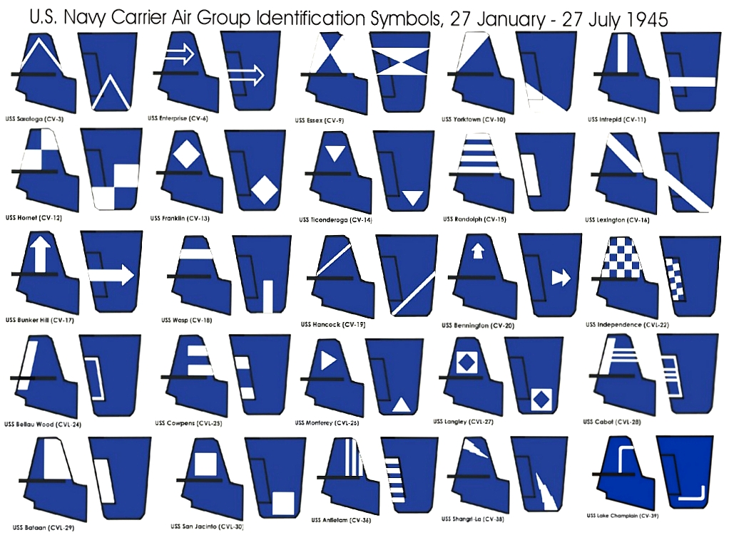 A collection of the geometric identification symbols ("G" symbols) for U.S. Navy Carrier Air Groups (CVG) in use in 1945. These symbols were ordered by COMAIRPAC on 27 January 1945 to standardize the variety of CVG markings. The symbols identified the parent carrier, not the air group (as today). A similar system for escort carriers was ordered on 2 June 1945. However, these markings proved to be hard to remember and difficult to describe on the radio. Therefore a new identification system consisting of one or two letters was ordered on 27 July 1945.